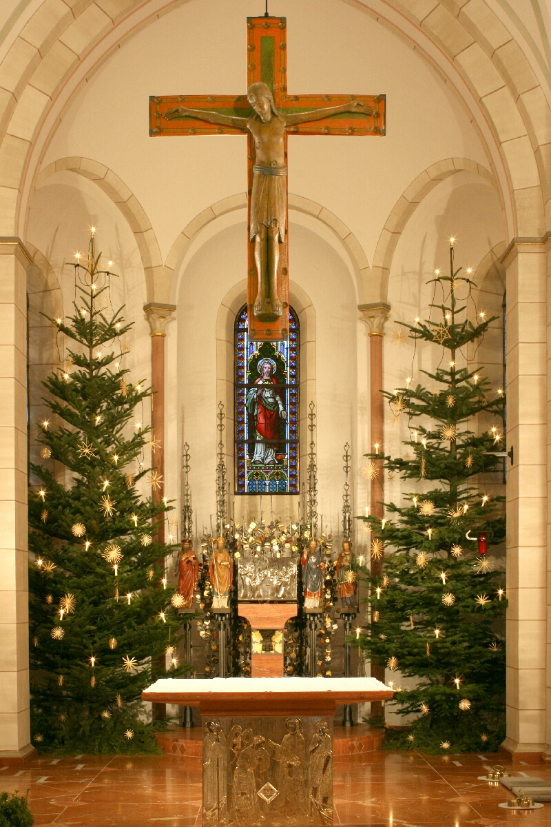 Miracle cross in the church S. Jakobus the Elder in Elspe, Lennestadt, Northrhine-Westfalia, Germany